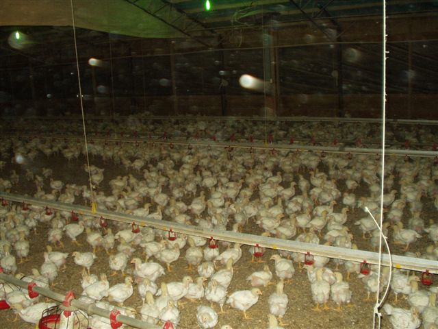 Inside a broiler house in Eastern Oklahoma in 2005